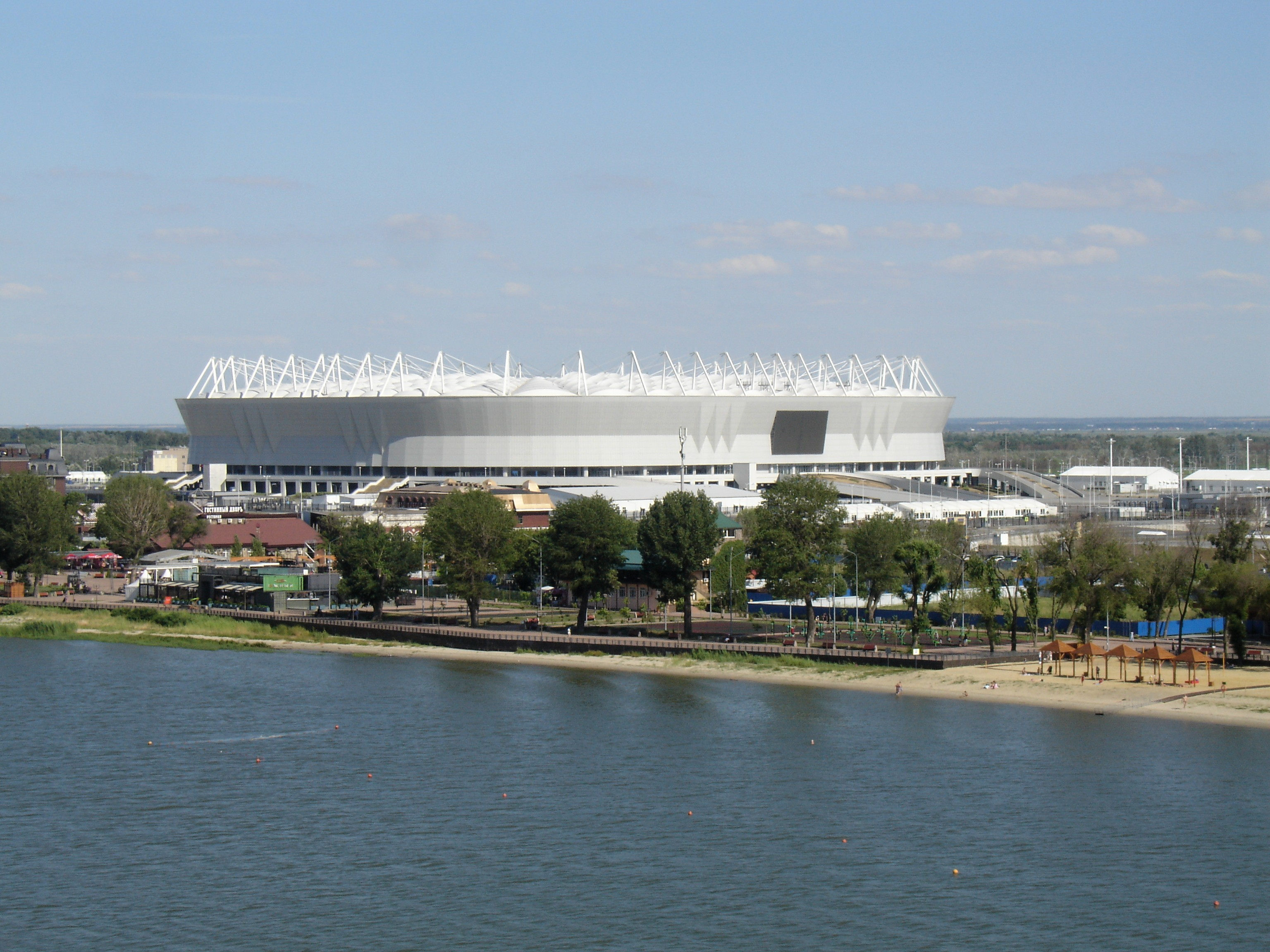 Rostov-Arena stadium. View from Voroshilov bridge. Rostov-on-Don, Rostov Oblast, Russia.